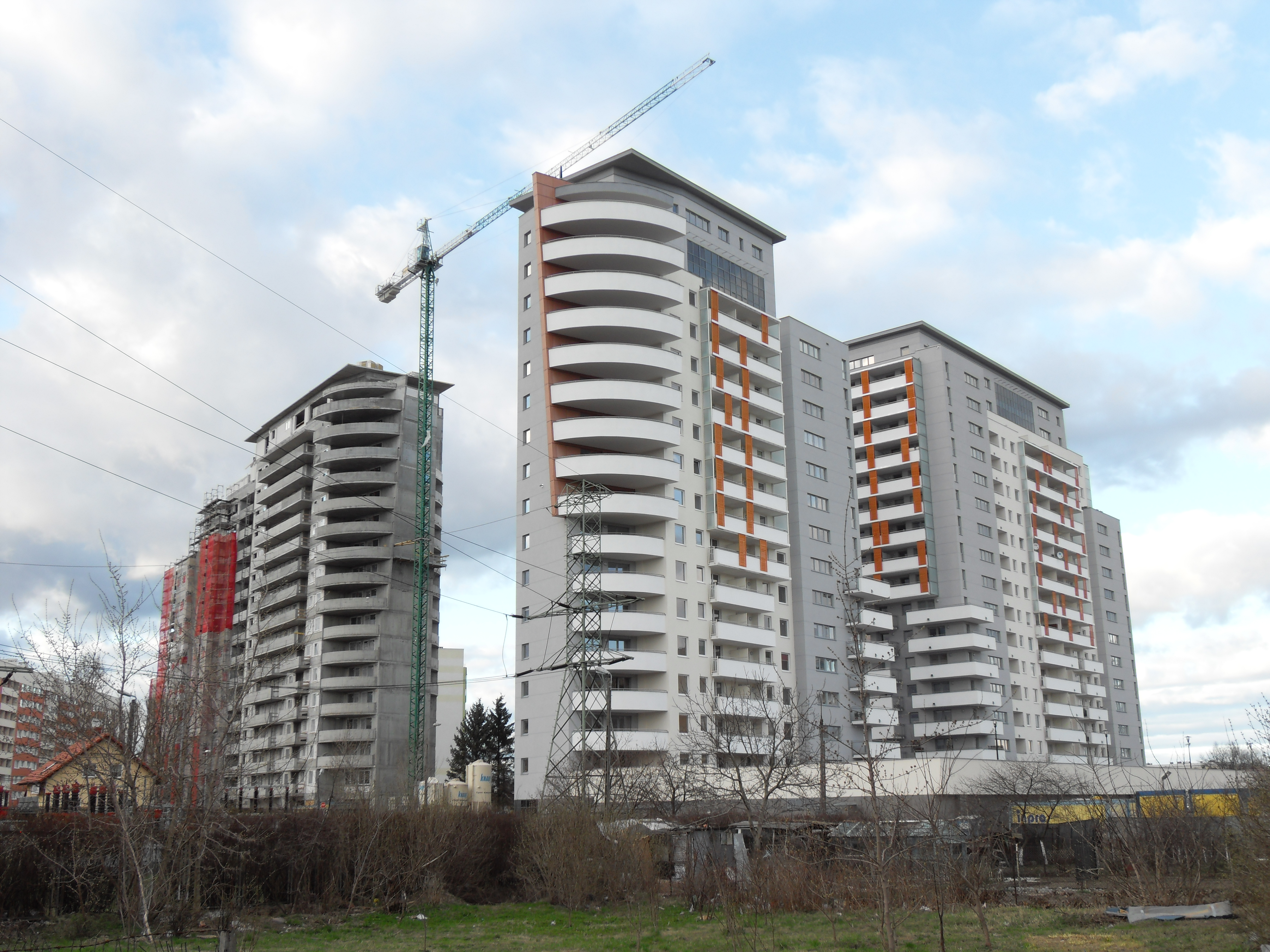 Gdańsk Przymorze, Poland - the Inpro buildings.